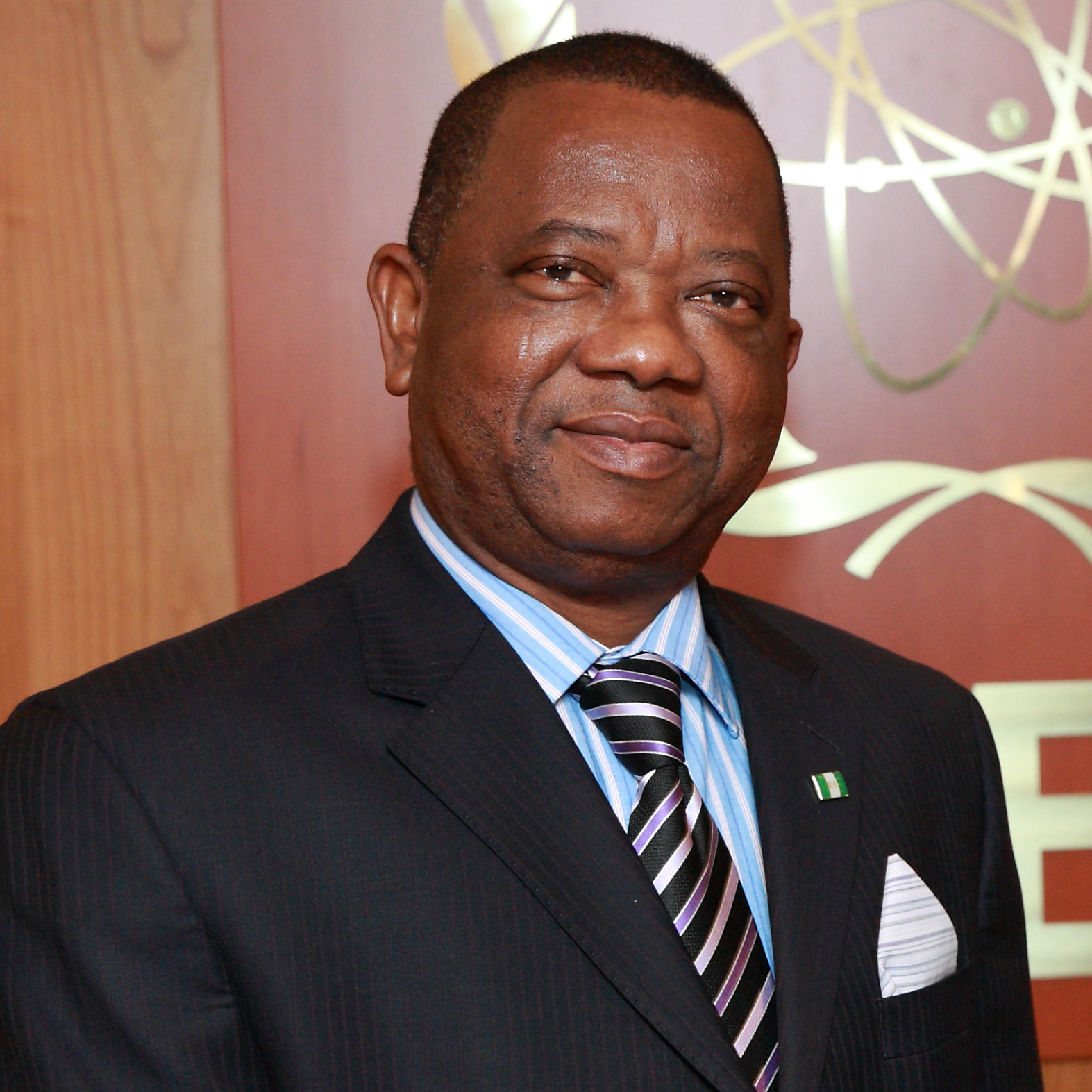 new Resident Representative of Nigeria to Austria, HE Mr Abel Adelakun Ayoko in Vienna, Austria, 18 December 2013.